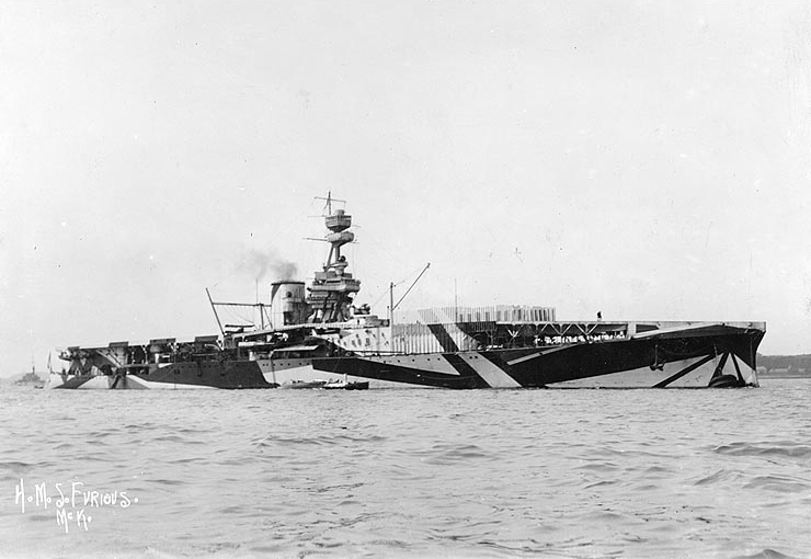 HMS Furious (British Aircraft Carrier, 1917-1948) Photographed in 1918, with palisade windbreaks raised on her flying-off deck, forward. Note that her "dazzle" camouflage pattern is carried up onto the palisade strakes. Collection of Lieutenant Commander P.W. Yeatman, USN (Retired). U.S. Naval Historical Center Photograph.